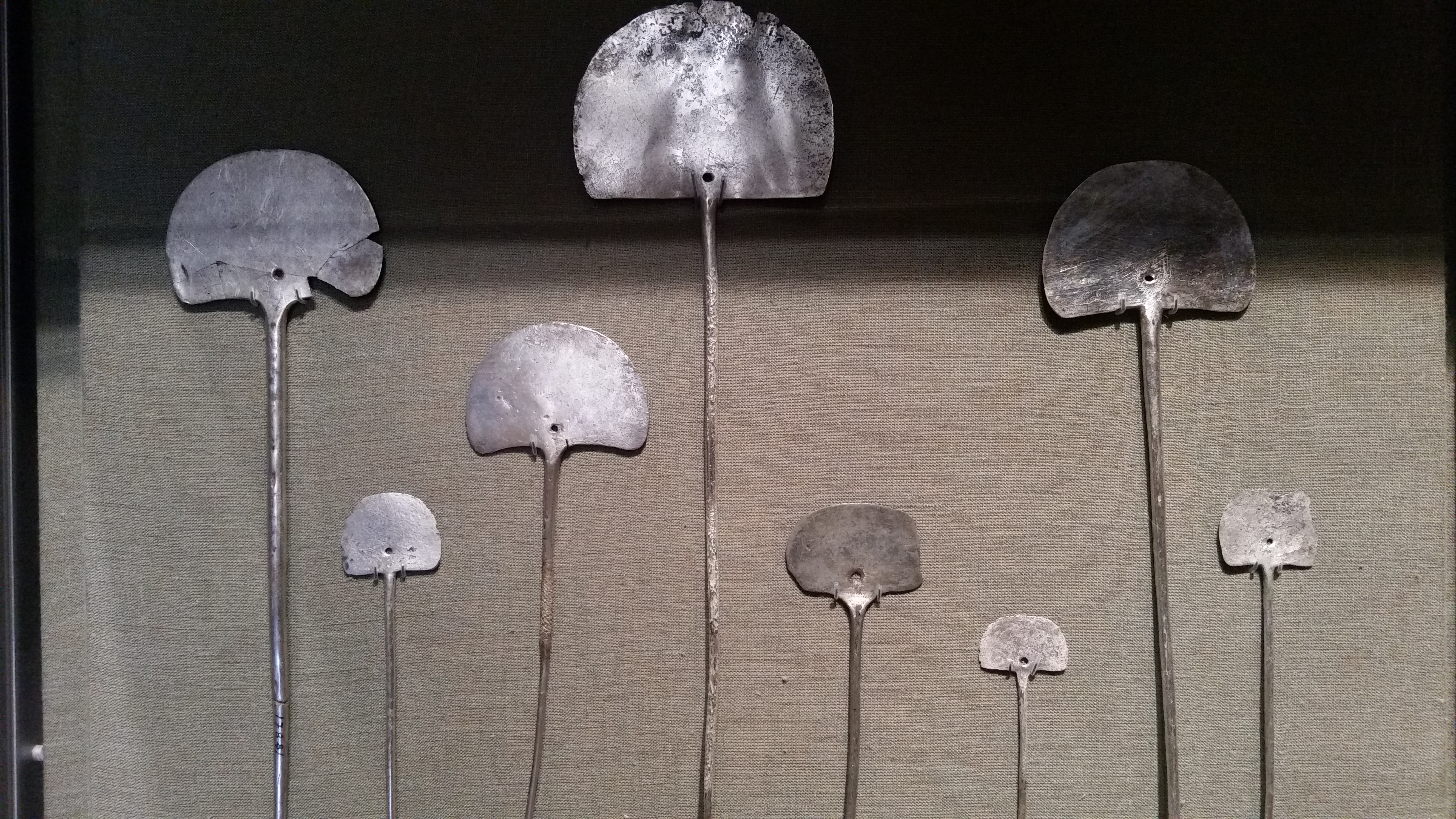 Silver tupus collected on Bingham's 1912 expedition to Macchu Picchu, on display in the Museo Machu Picchu, Casa Concha, Cusco